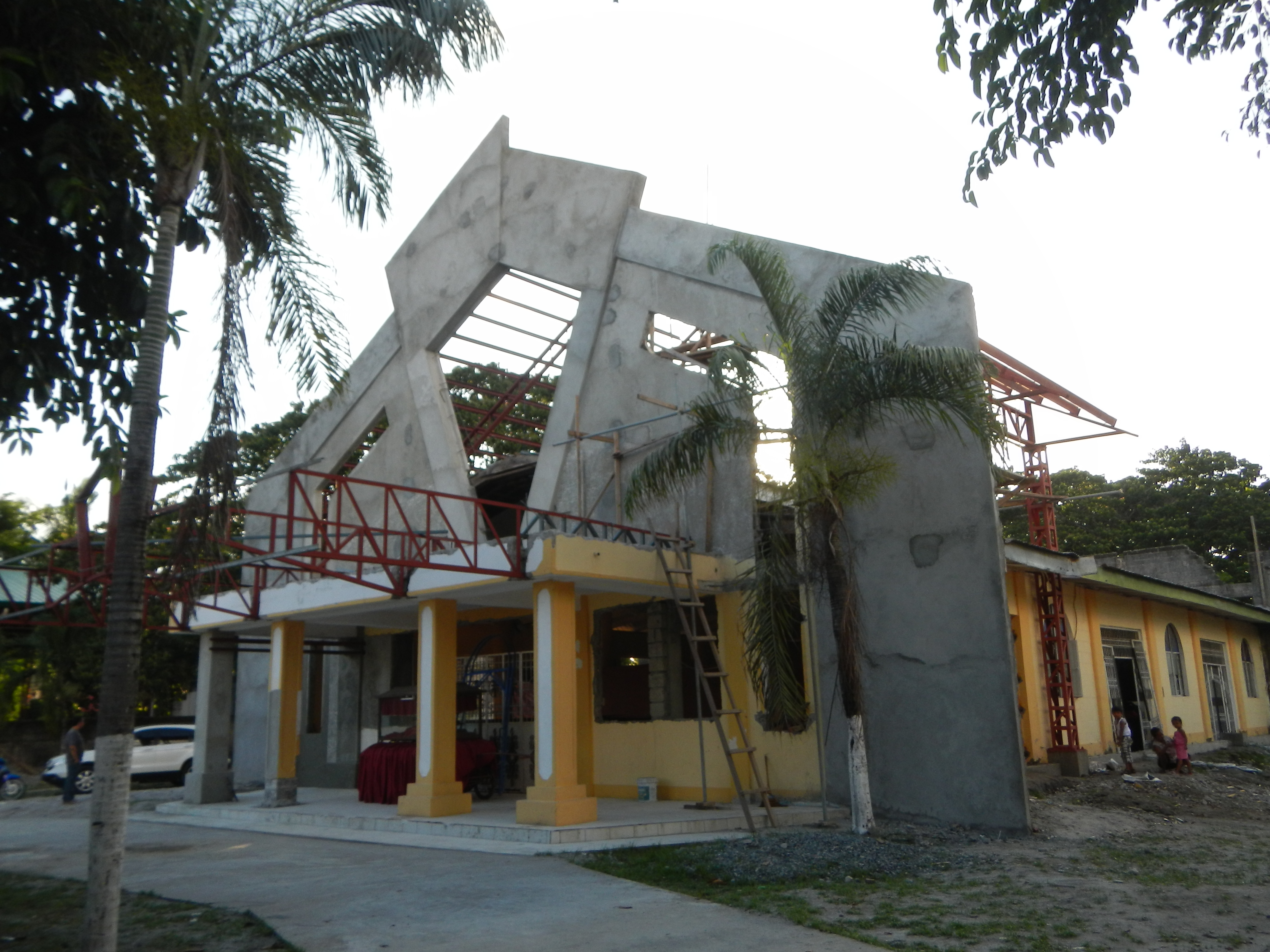 Sacred Heart Parish Church (F-1939 2316 Tarlac, Philippines Titular: Sacred Heart of Jesus, February 11 Parish Priest: Father Osias Ibarreta Vicariate of the Immaculate Conception Church under Construction Vicariate of the Immaculate Conception Diocese of Tarlac, Barangay Corazon de Jesus, Concepcion, Tarlac.